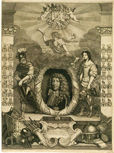 Vincents Joachim Hahn (1632-1680), Danish courtier and landowner